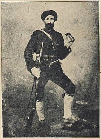 A portrait of Dine Abduramanov.